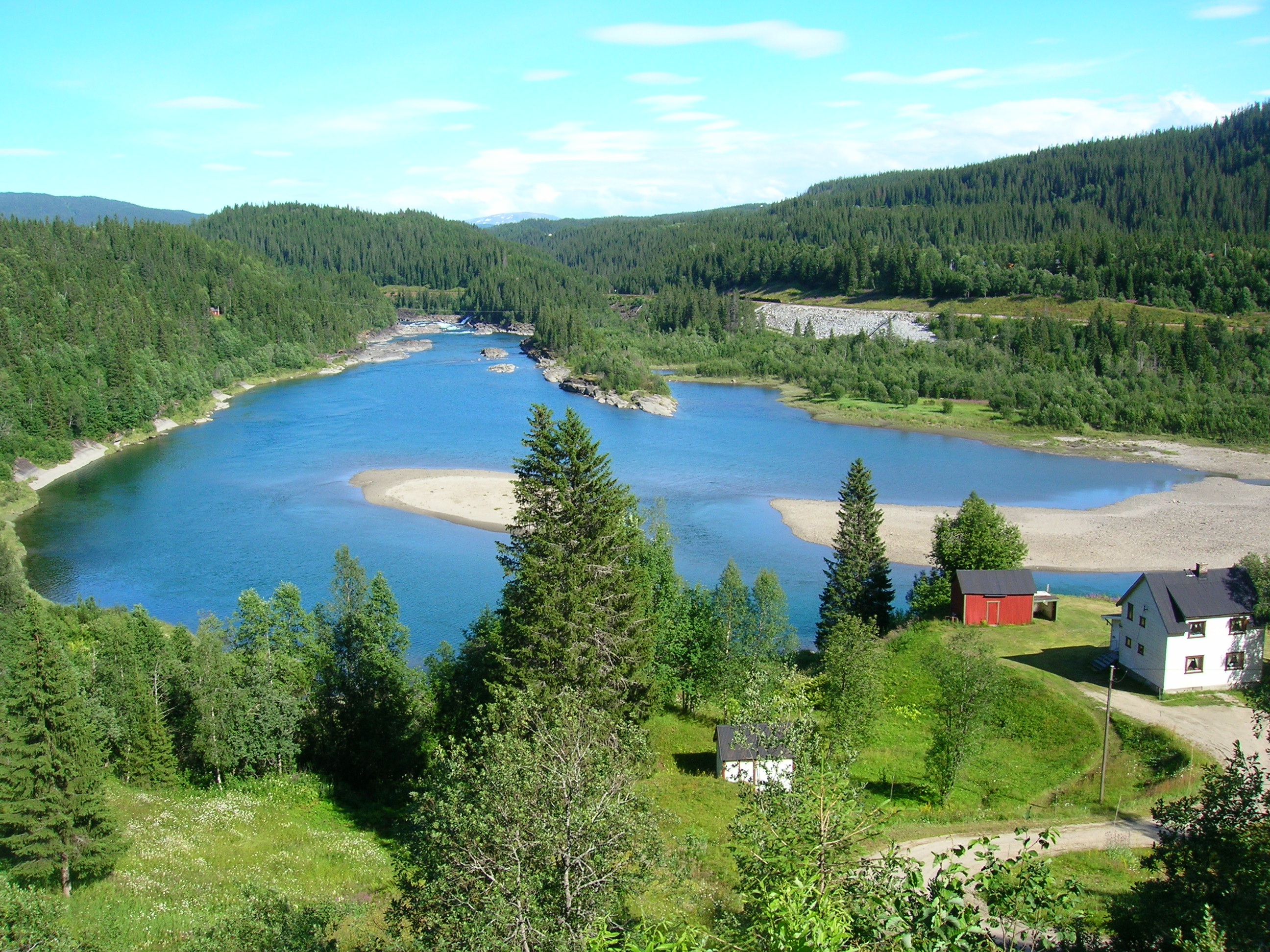 The River Ranelva south of the waterfall Reinforsen in Rana municipality, county of Nordland, Norway, Photo 23 July, 2007 with a Nikon Coolpix 5600 5,1 Megapixel camera.